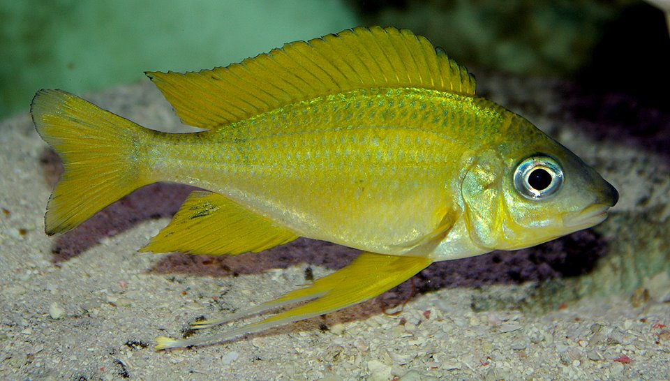 A male Ophthalmotilapia nasuta from Kipili in Lake Tanganyika, Tanzania